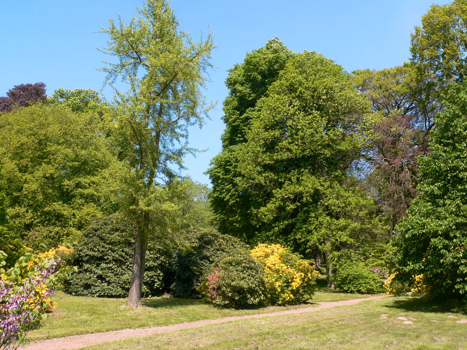 Ohrbergpark